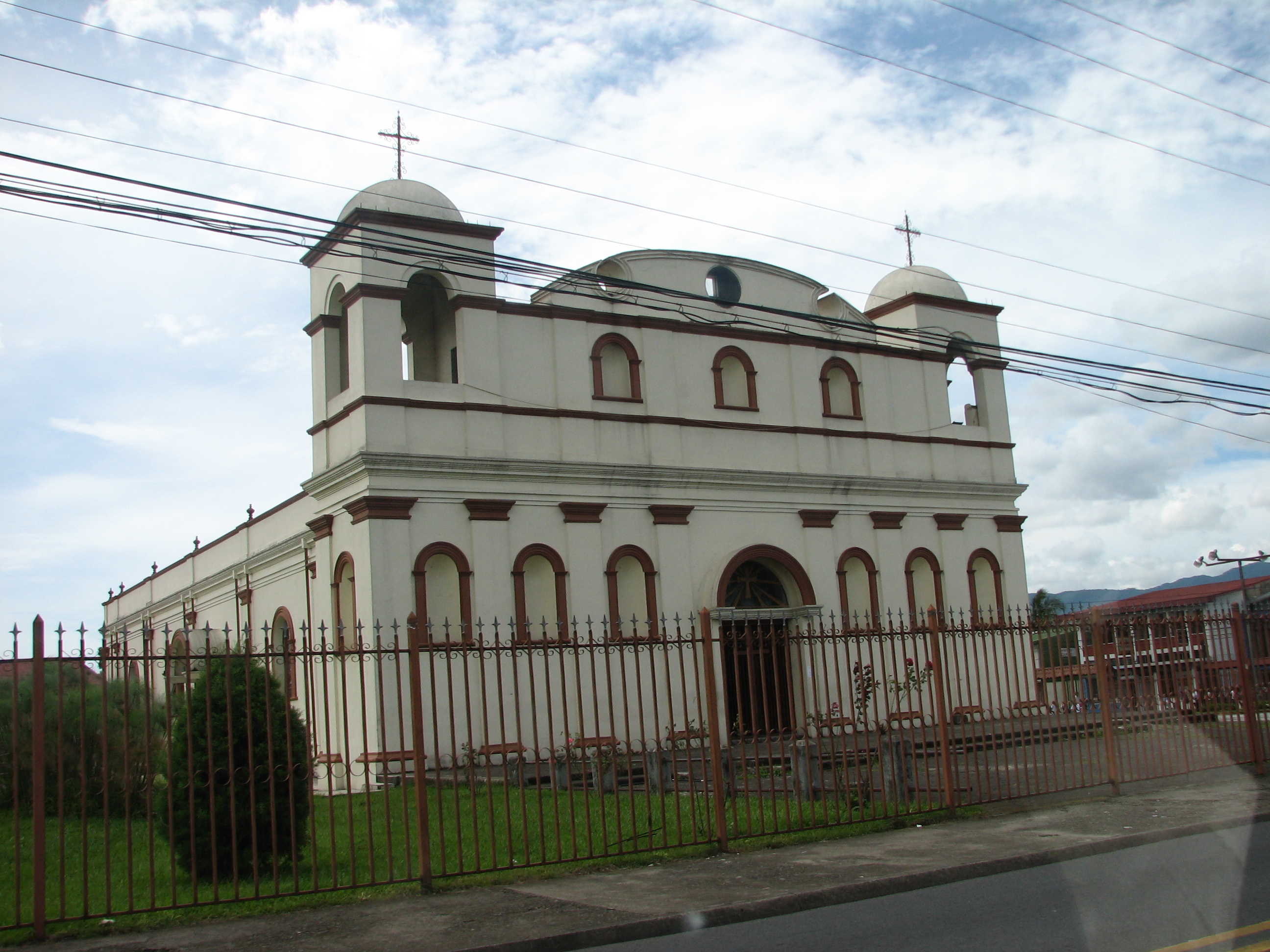 Iglesia Católica de Zapote (Catholic Church of Zapote) Google Maps